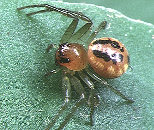 female Lysiteles miniatus from Okinawa.